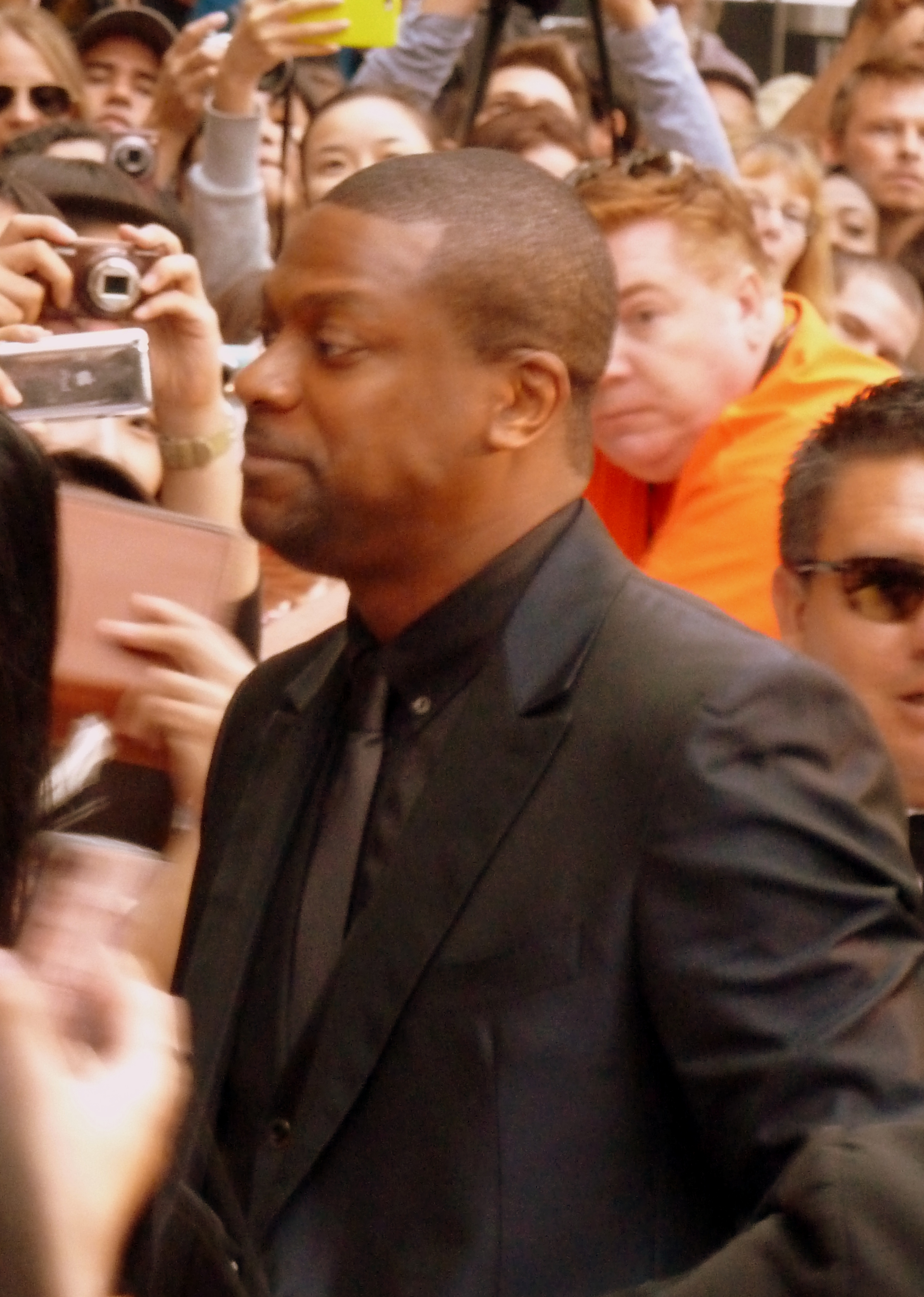 Chris Tucker at the premiere of Silver Linings Playbook, Toronto Film Festival 2012